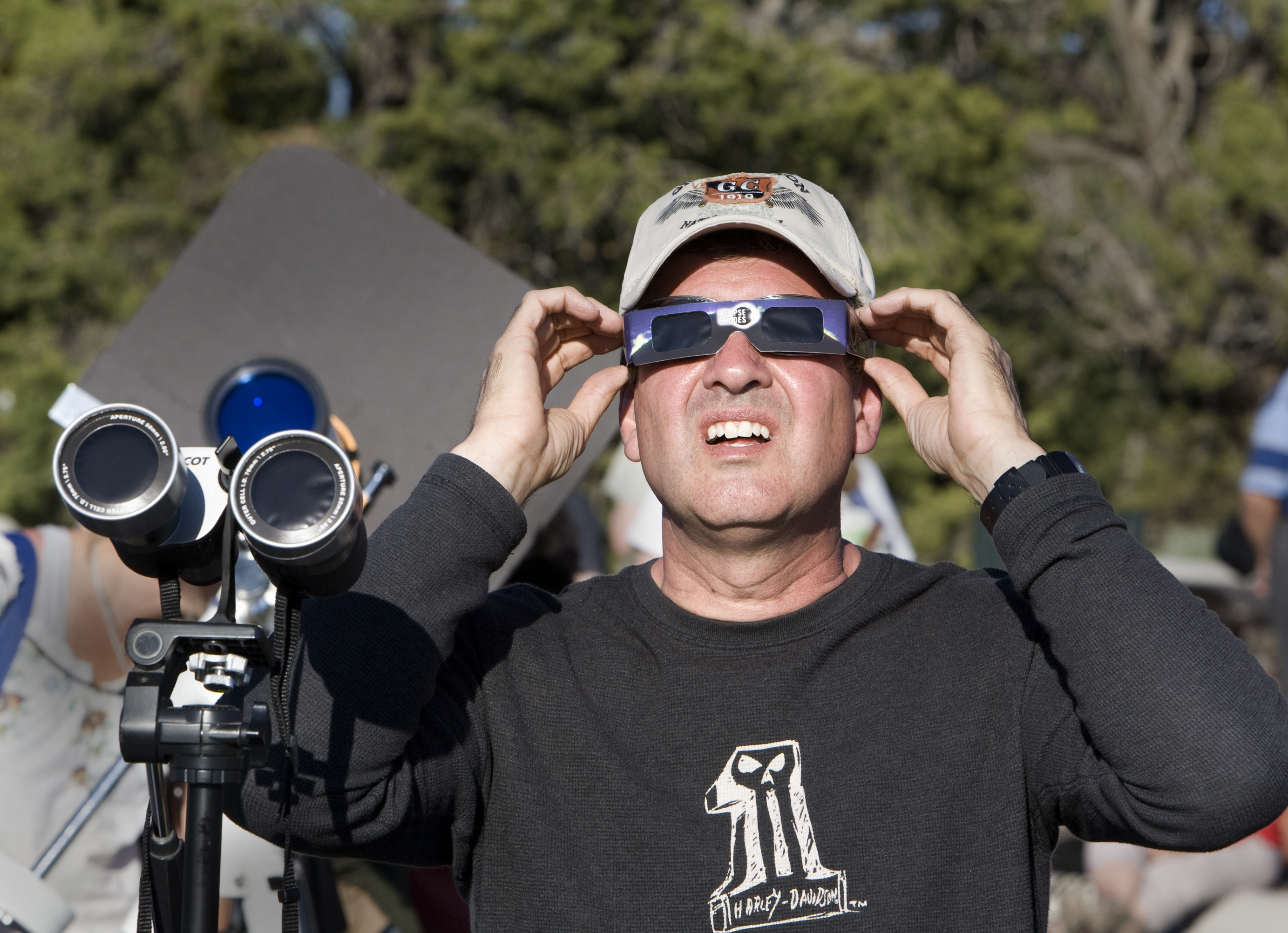 Personality rights warningAlthough this work is freely licensed or in the public domain, the person(s) shown may have rights that legally restrict certain re-uses unless those depicted consent to such uses. In these cases, a model release or other evidence of consent could protect you from infringement claims.